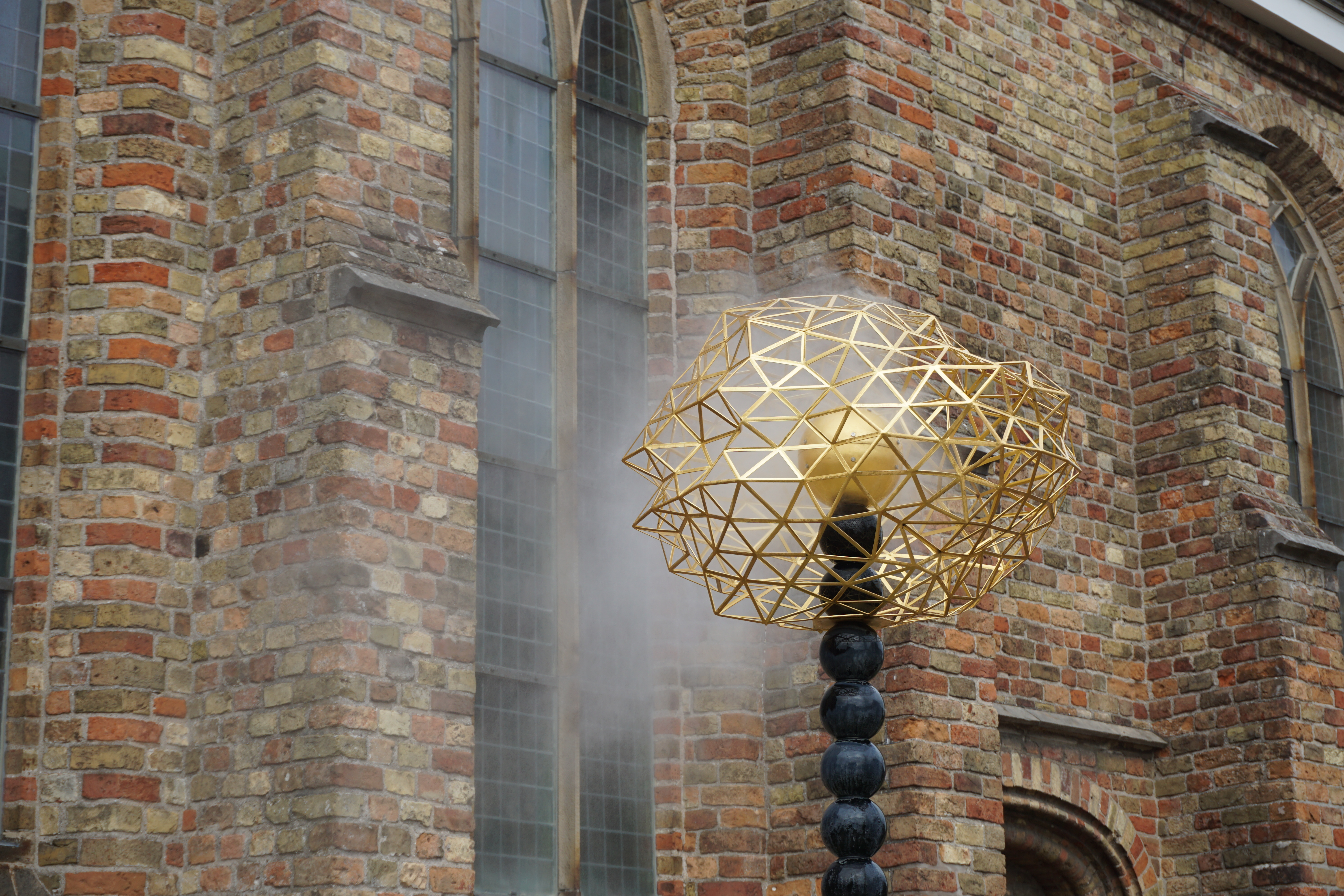 Fountain "De Oortwolk" by Jean-Michel Othoniel, in Franeker (Fryslân, The Netherlands), in front of the Martinichurch. The vapour symbolizes the Oort cloud, comets from the edges of our galaxy.